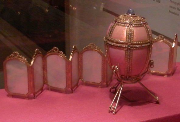 Danish Palaces Fabergé egg at Metropolitan Museum. The 10-panel screen with watercolor paintings of Danish palaces and imperial yachts is seen from behind.